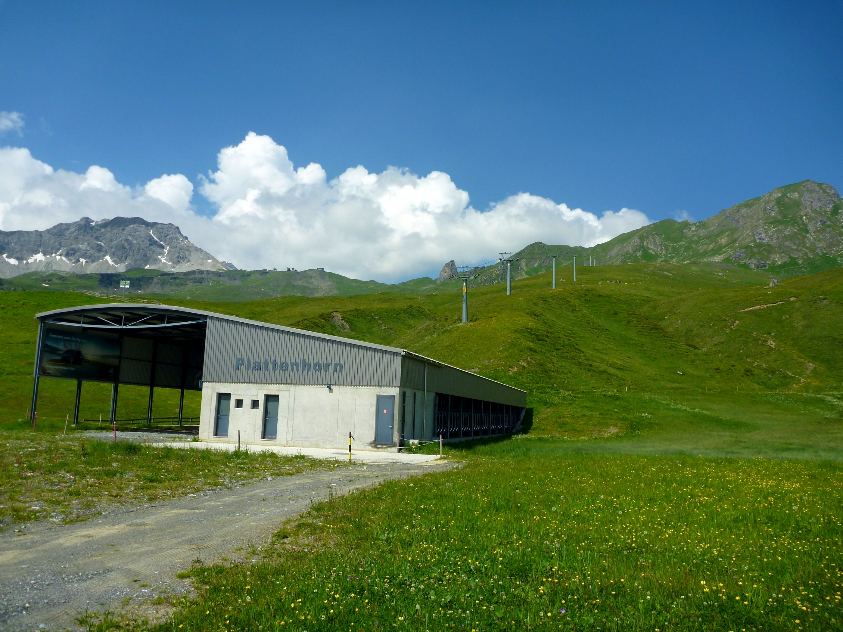 chairlift Plattenhorn at Arosa, Switzerland